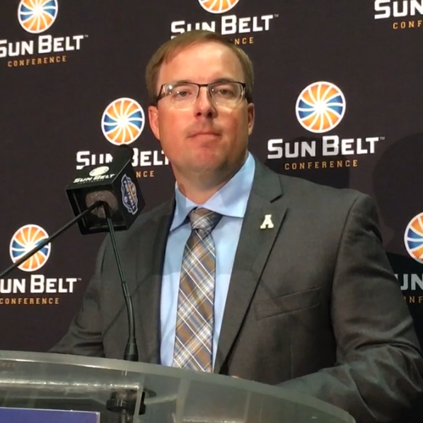 Eliah Drinkwitz, head coach of the Appalachian State Mountaineers football team, at the 2019 Sun Belt Conference Media Day in the Mercedes-Benz Superdome in New Orleans.